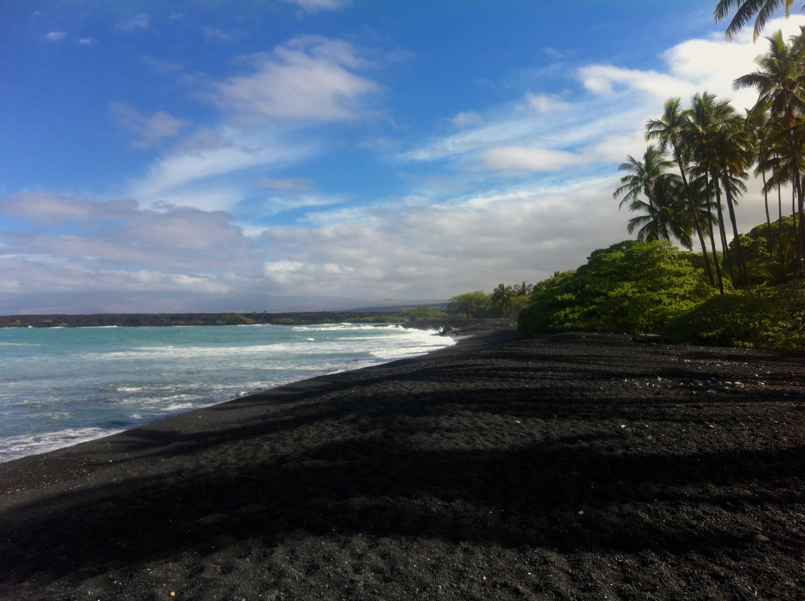 Photo of the black sand beach of Kiholo bay